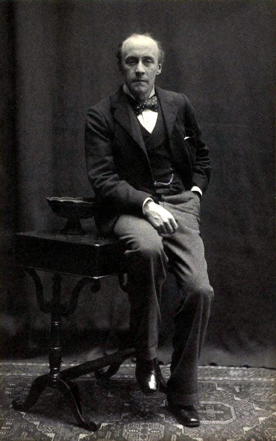 Platinum print of Anthony Hope Hawkins.